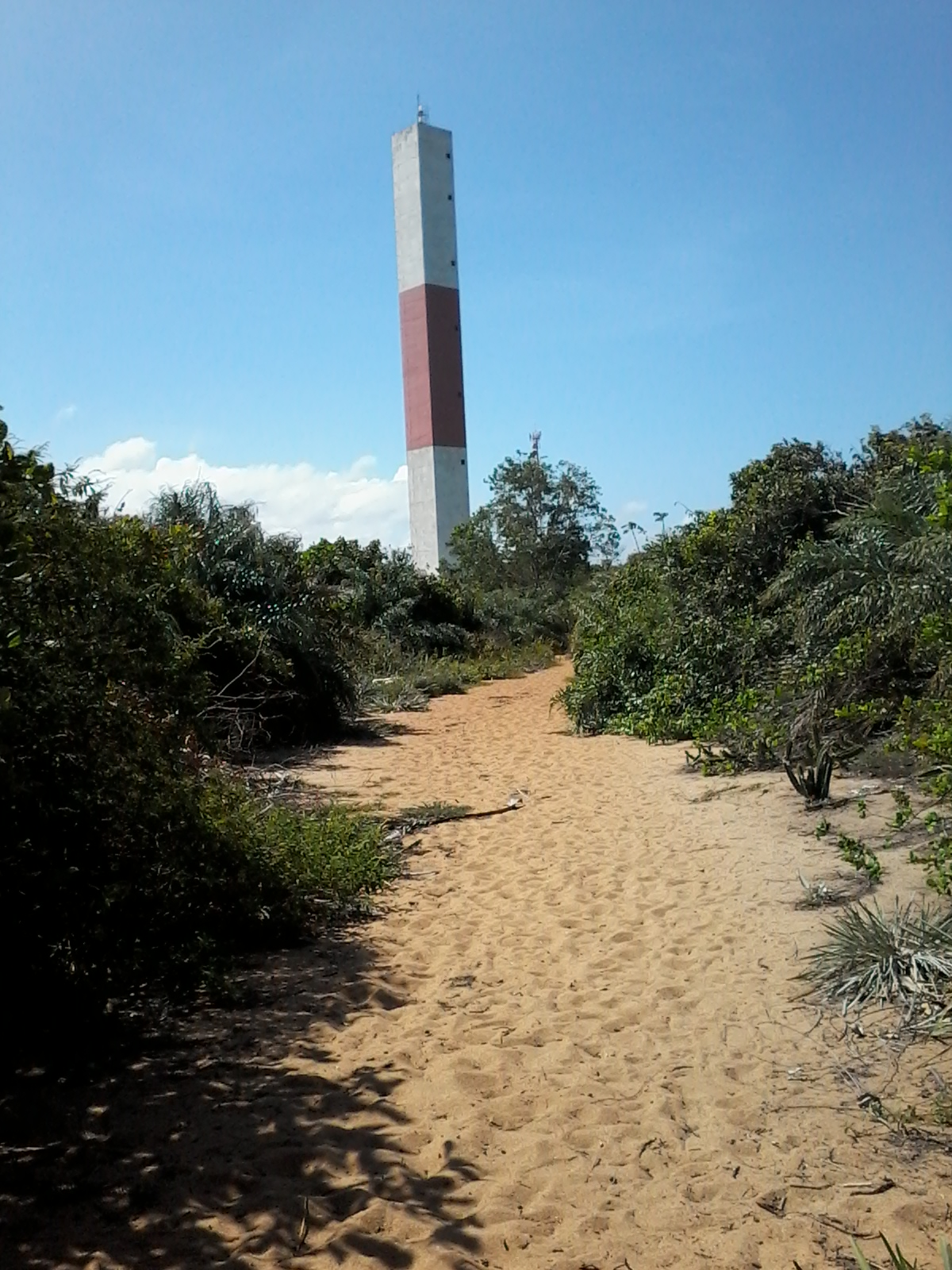 Atual Farol de Regência